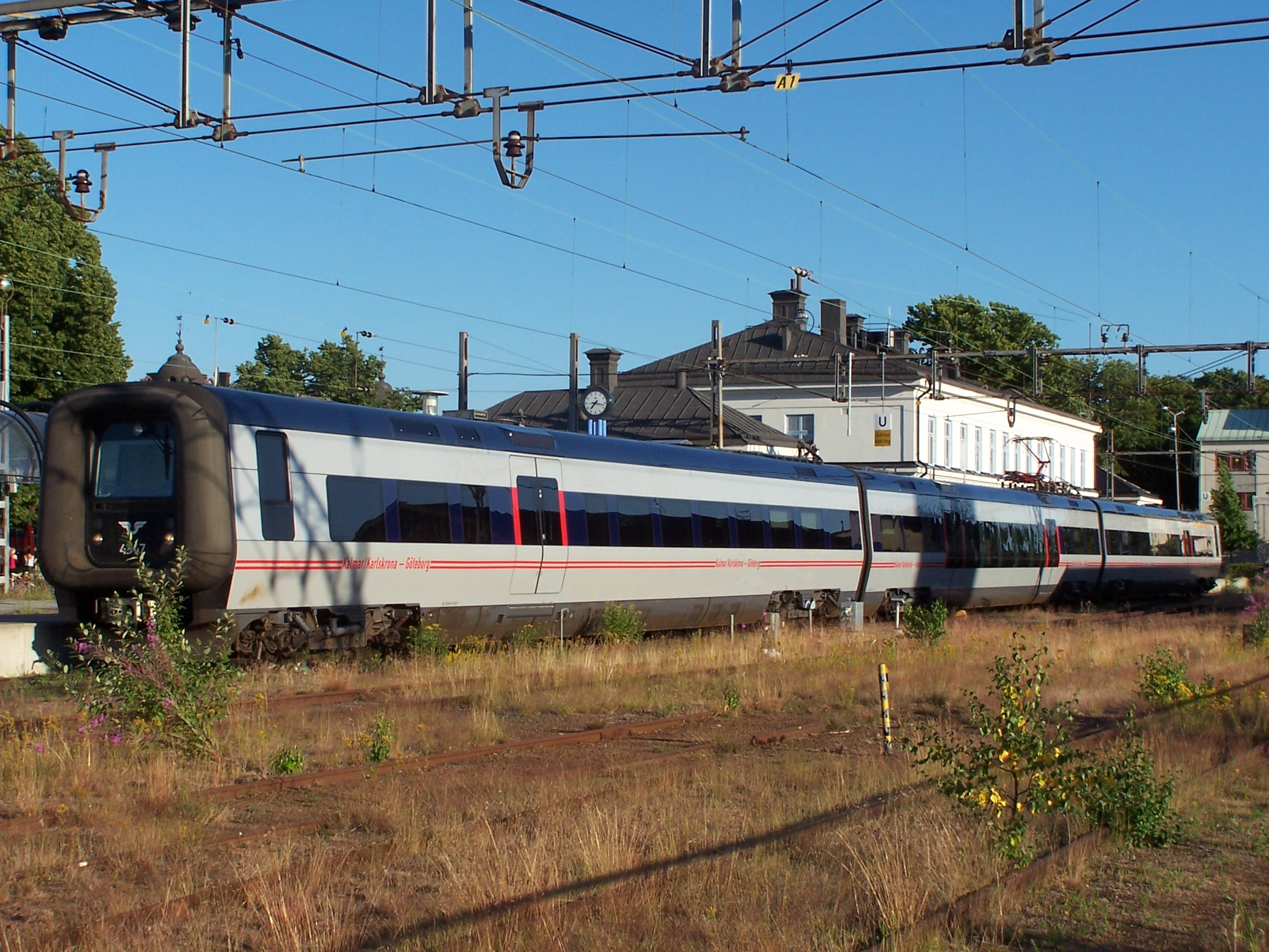 Kust till Kust (Karlskrona-Göteborg). Train type X32 at the central station of Karlskrona, Sweden.